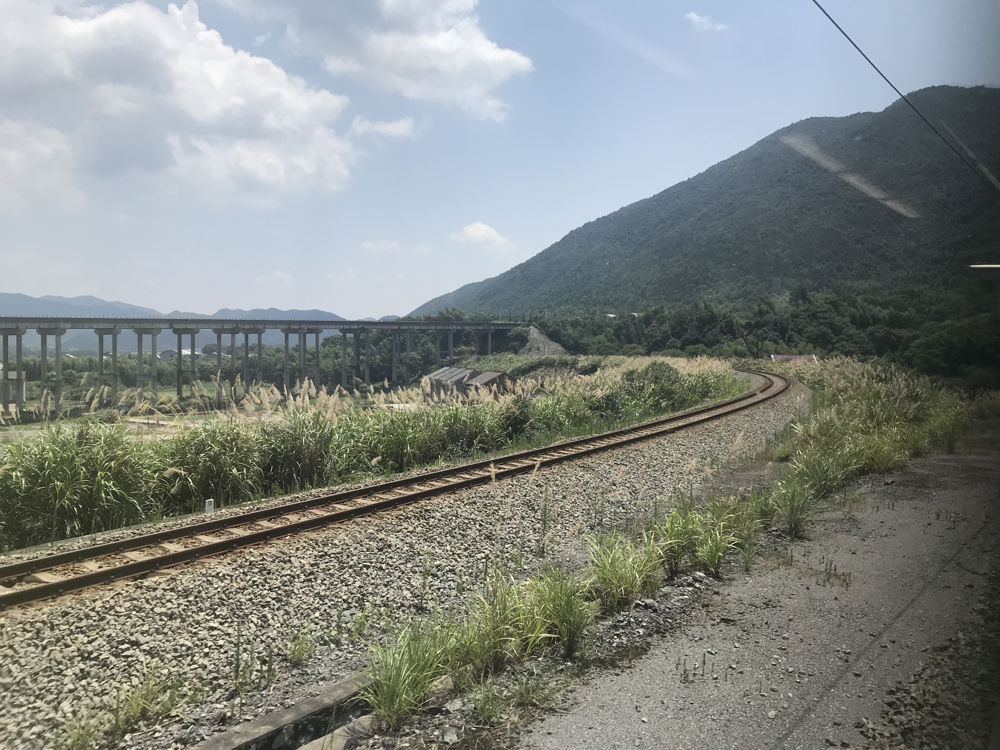 201906 Liling-Chaling Railway near Chalingxi